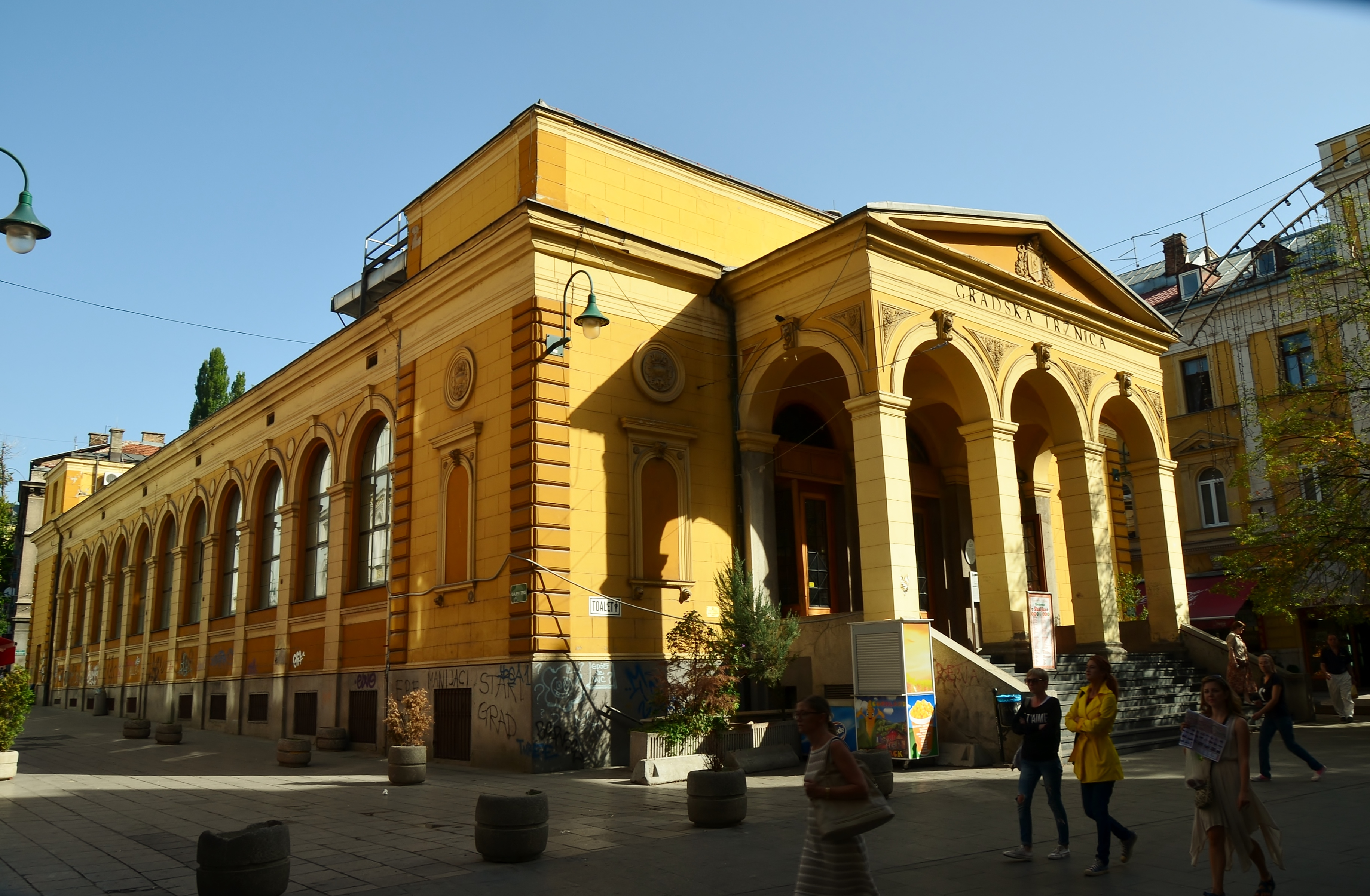 Gradska tržnica Markale in Sarajevo, Bosnia and Herzegovina